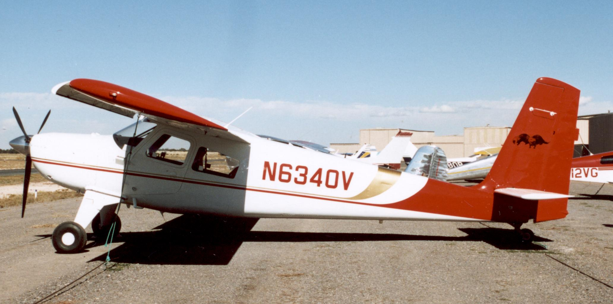 Helio H295 Courier STOL aircraft of 1967 at Valle airport, Arizona